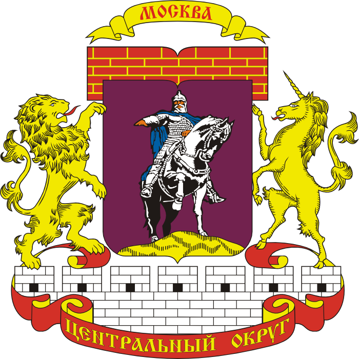 Coat of arms of the Central Administrative District in the city of Moscow, Russia.